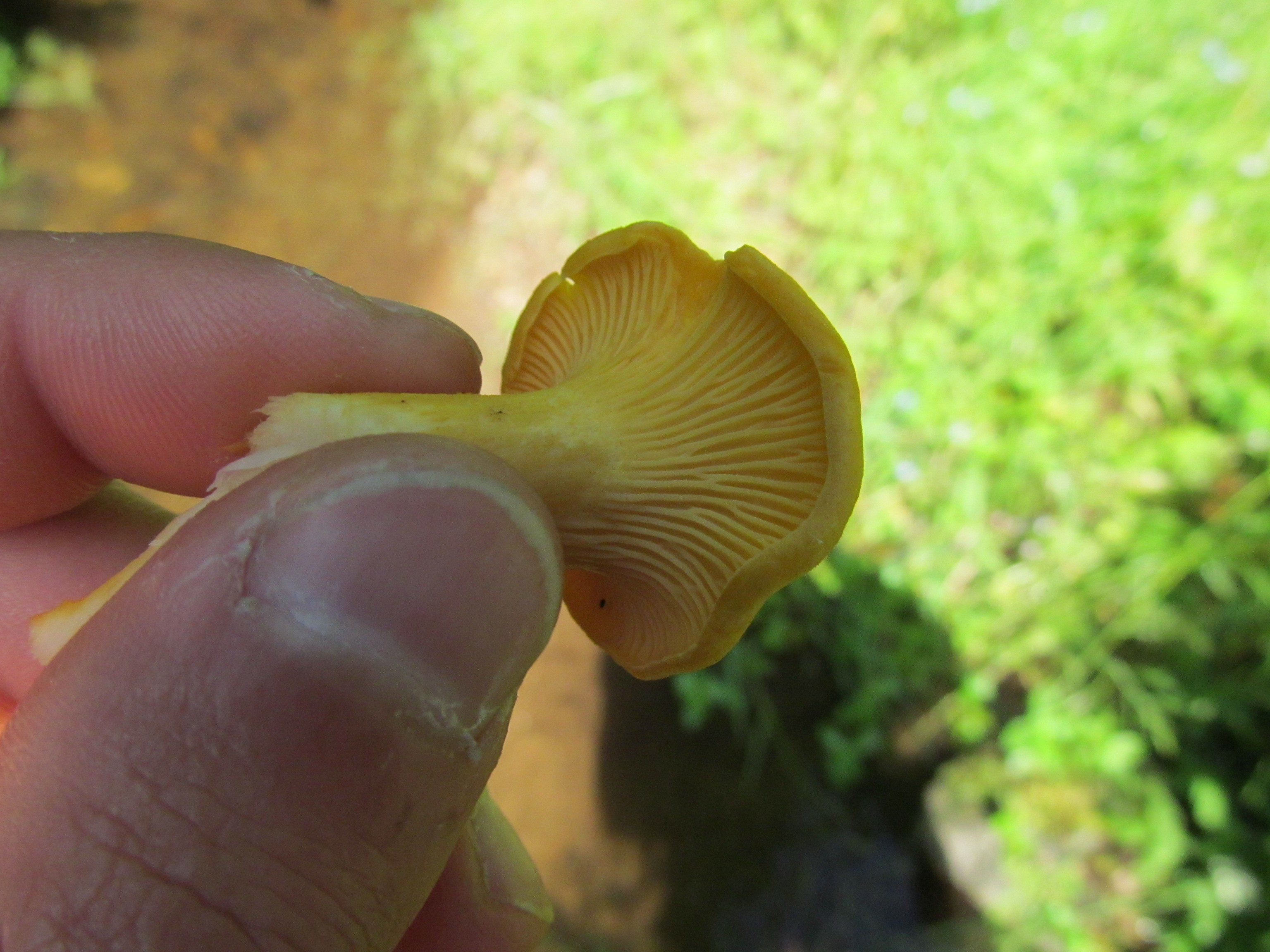 cantharellus cibarius